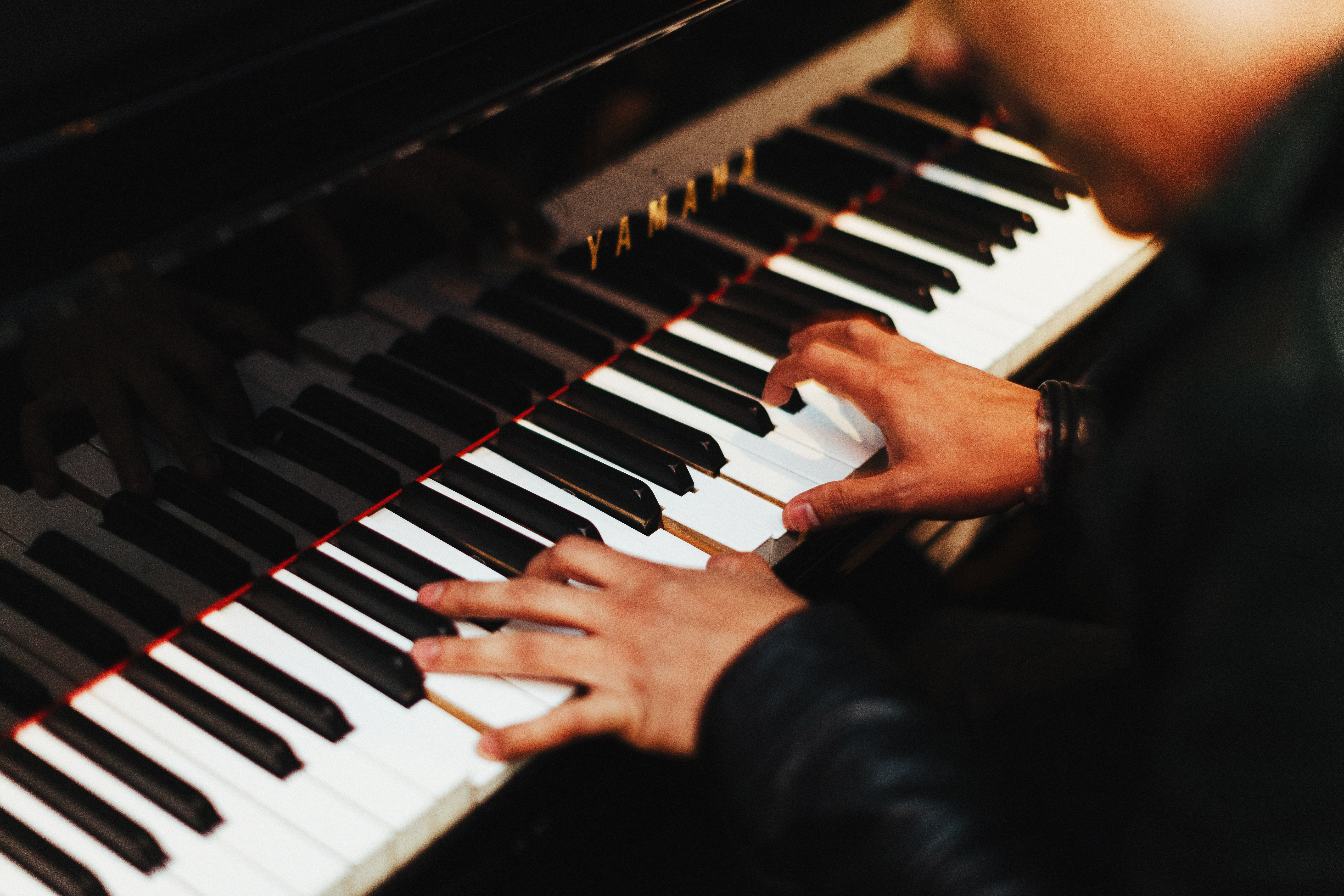 Gabriel Gurrola 2016-01-13